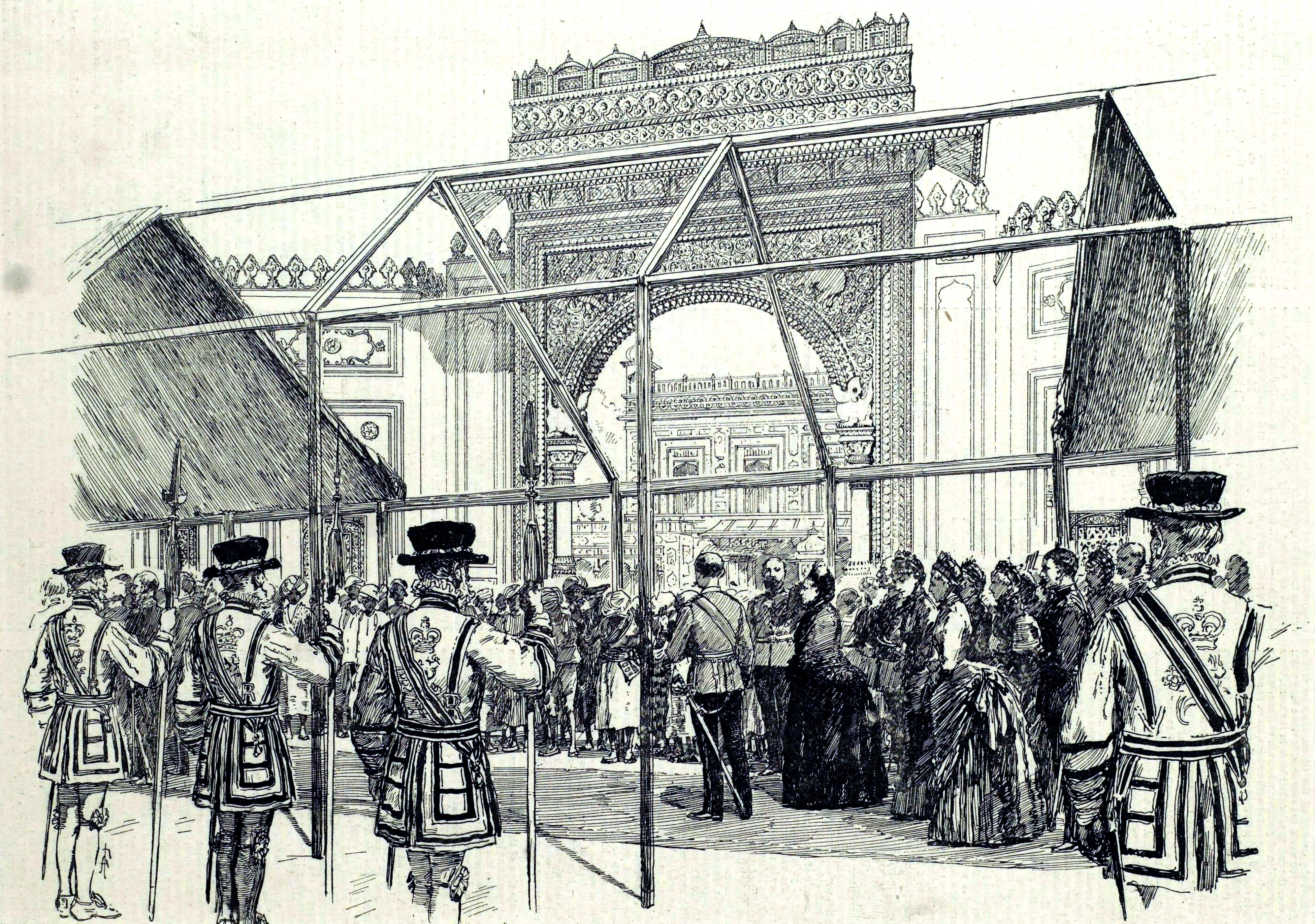 Illustrated London News (London, England), Saturday, May 08, 1886; pg. 478; Issue 2455